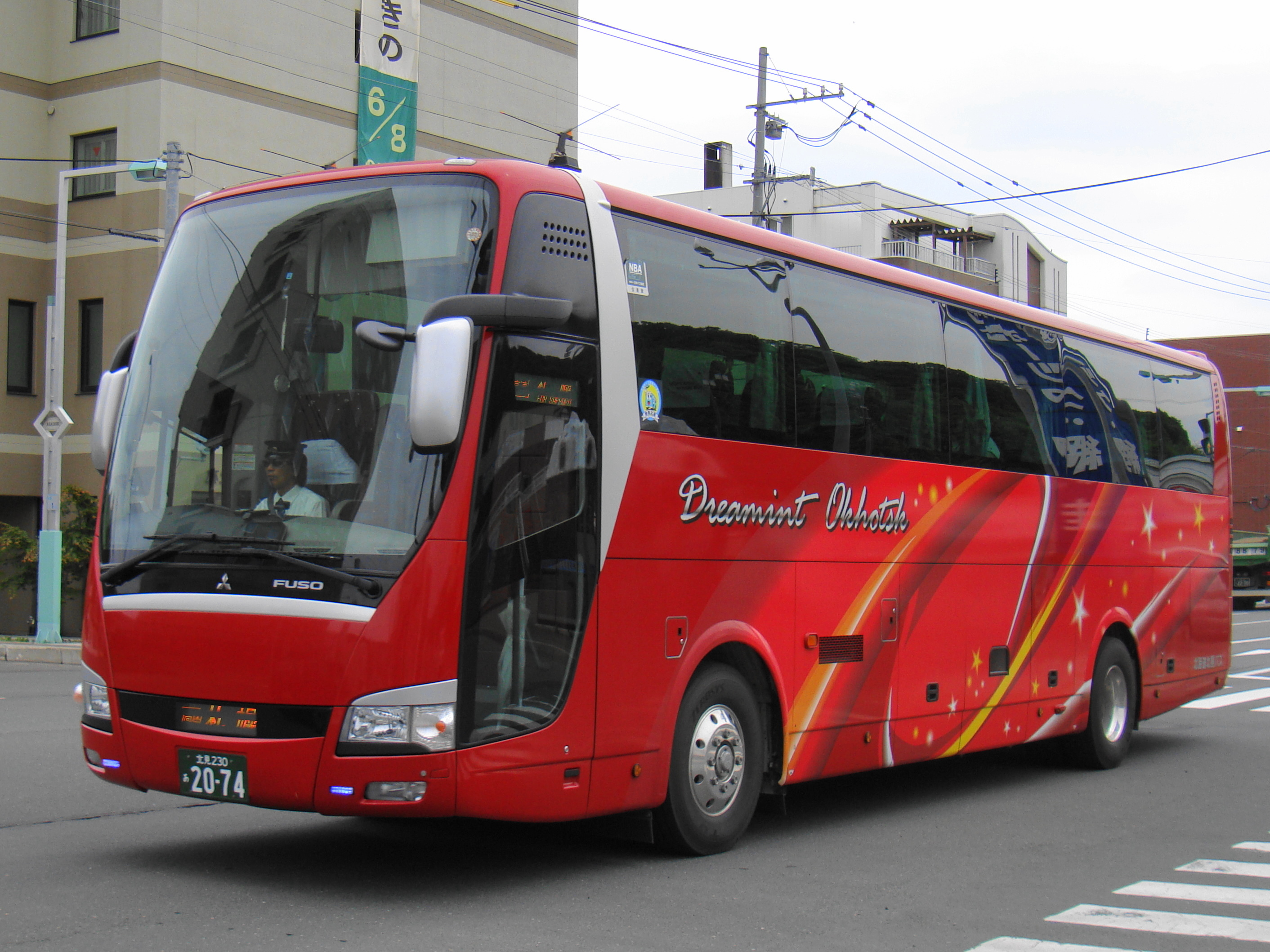 "Dreamint Okhotsk gō" Abashiri to Sapporo